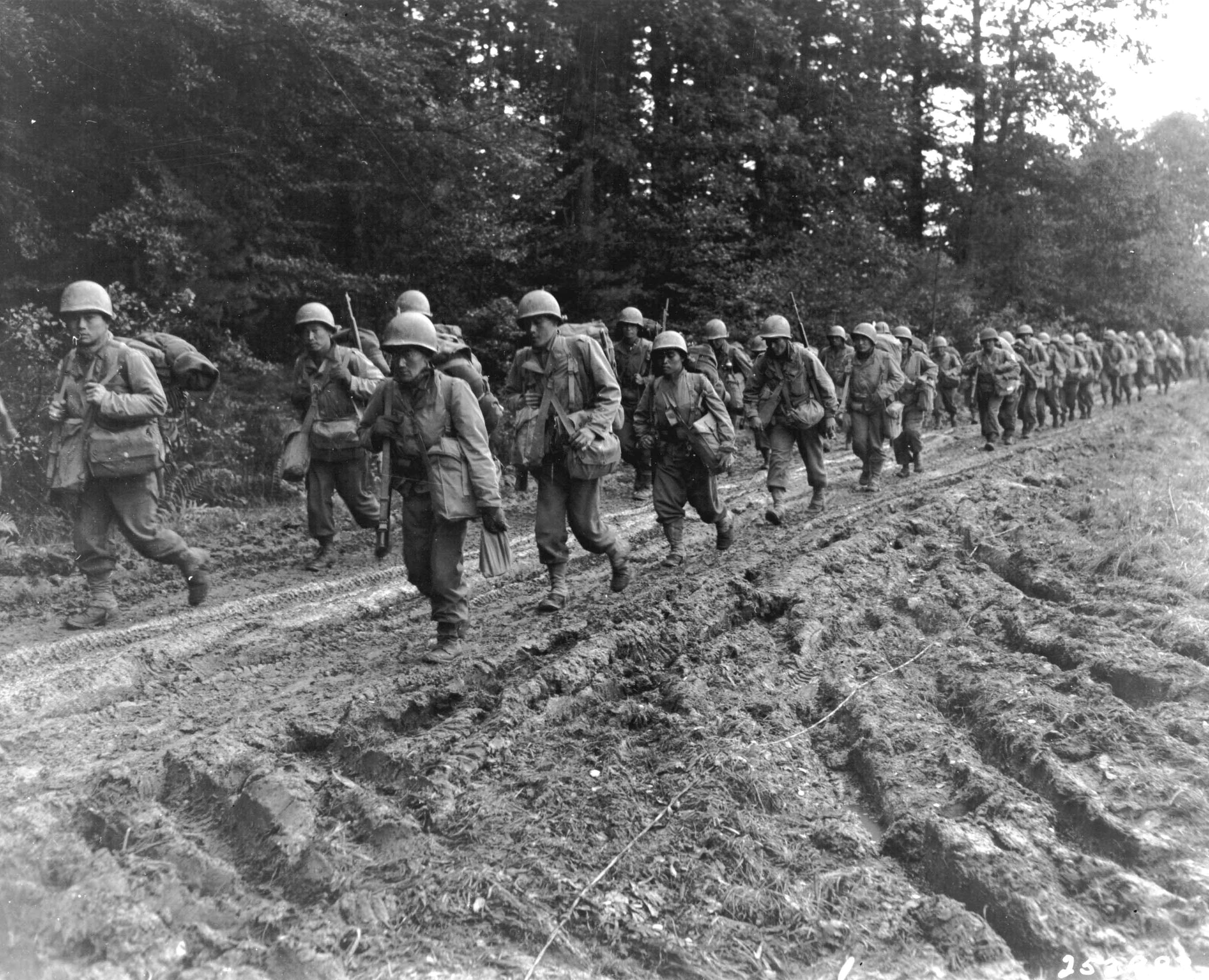 Japanese-American infantrymen of the 442nd Regimental Combat Team hike up a muddy French road in the Chambois Sector, France, in late 1944. (Army Center for Military History file photo)